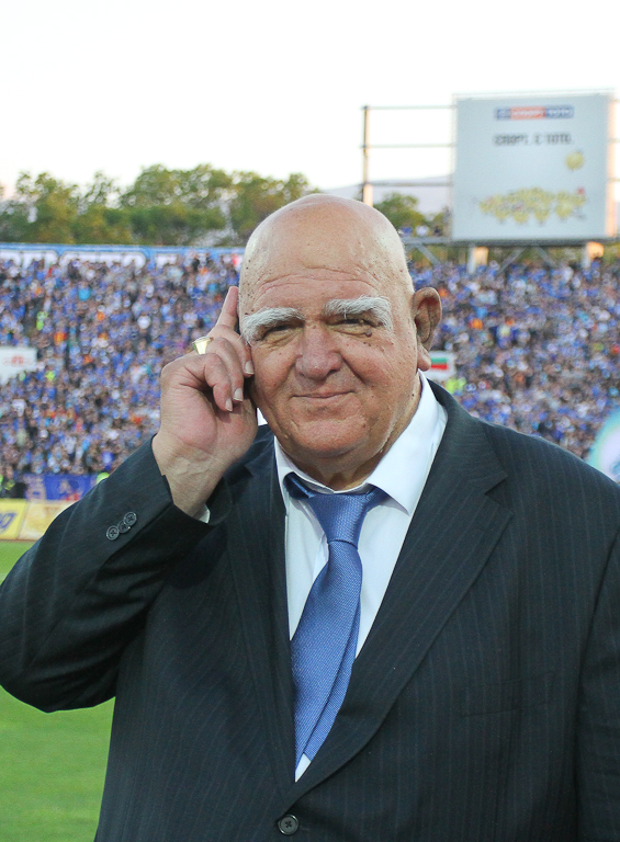 Aleksandar Tomov Lazarov (Bulgarian: Александър Томов Лазаров, born April 3, 1949 in Sklave, Bulgaria) is a Bulgarian Greco-Roman wrestler, in the heaviest weight class.